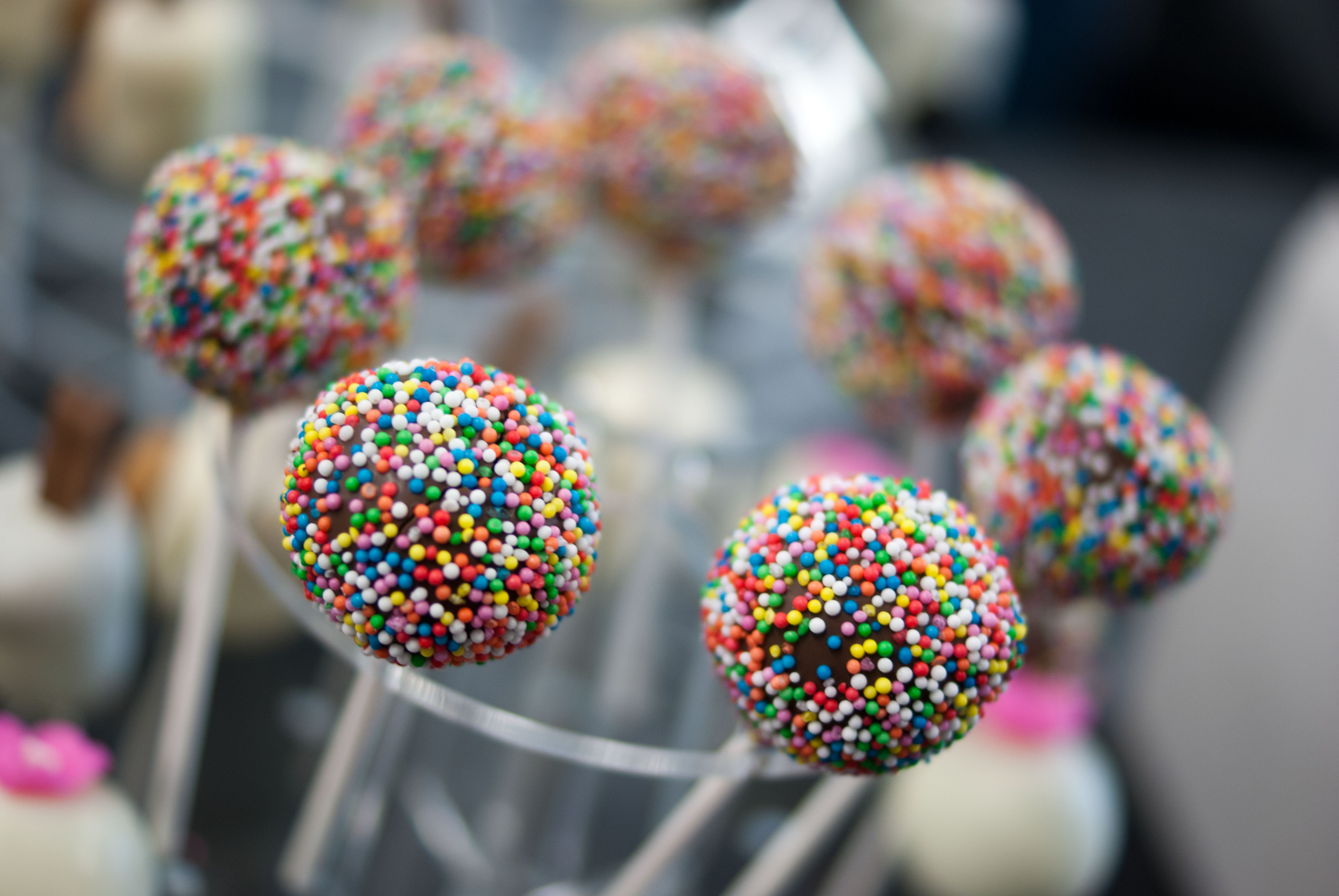 Cake pops at Cupcake Camp 2012